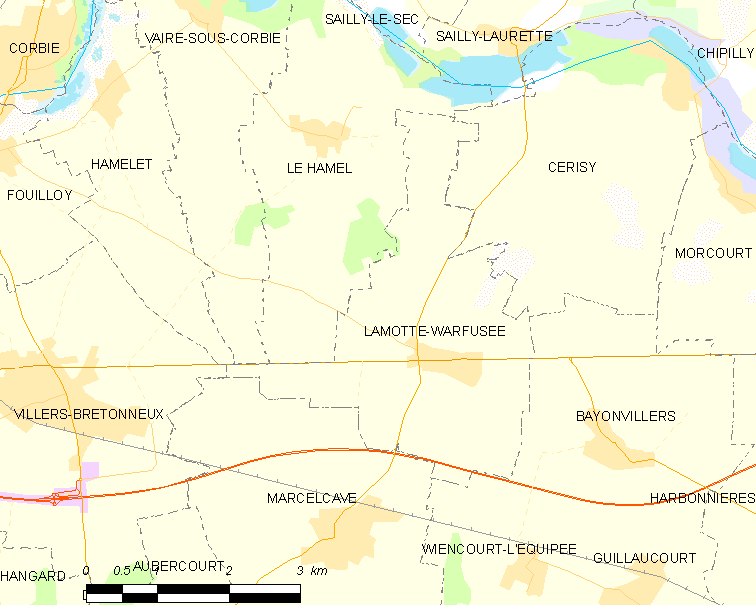 Map of French municipality Lamotte-Warfusée